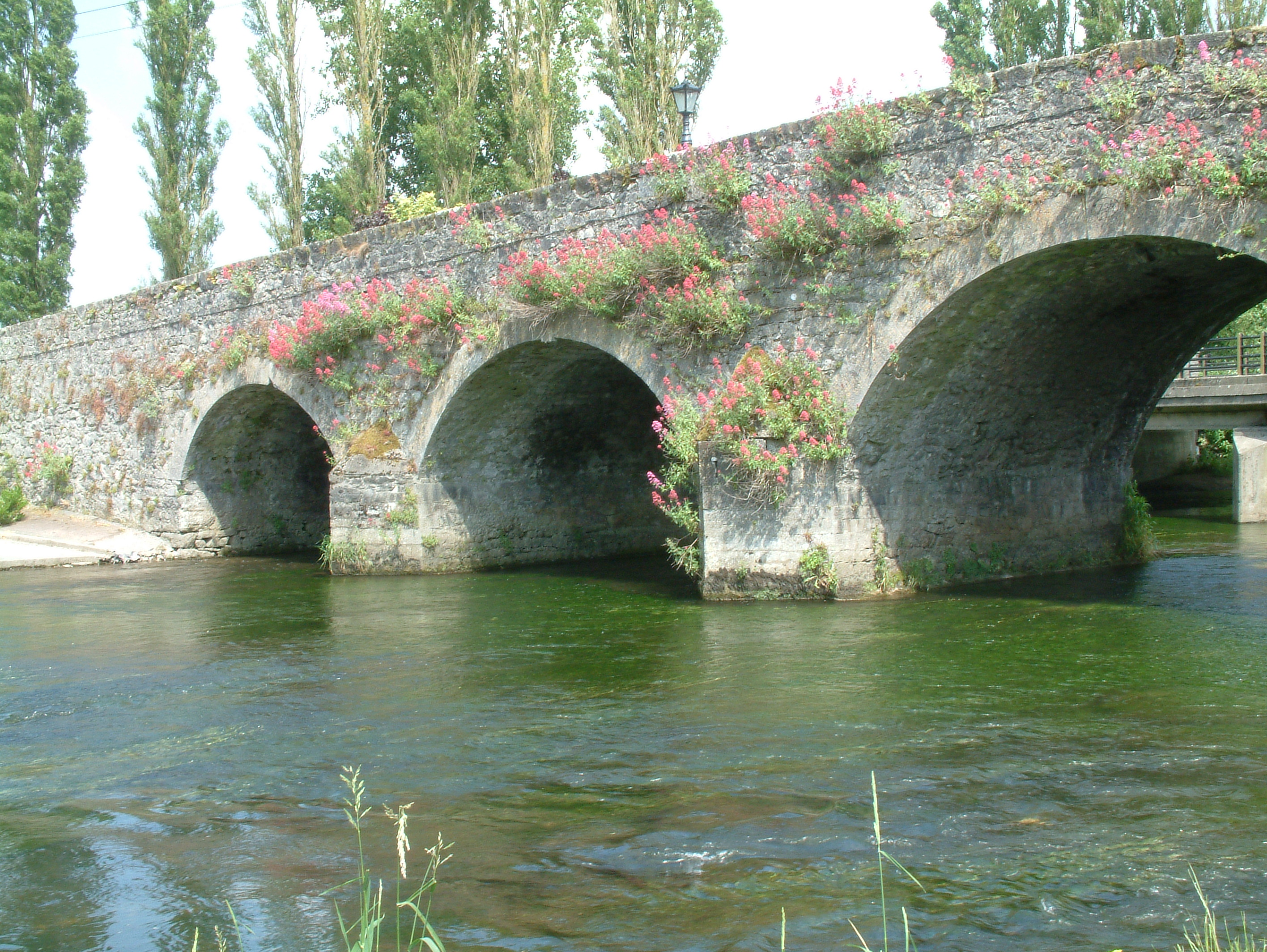 As seen from Bob's Bar at the old bridge parallel to the N8 in Durrow, County Laois, Ireland.